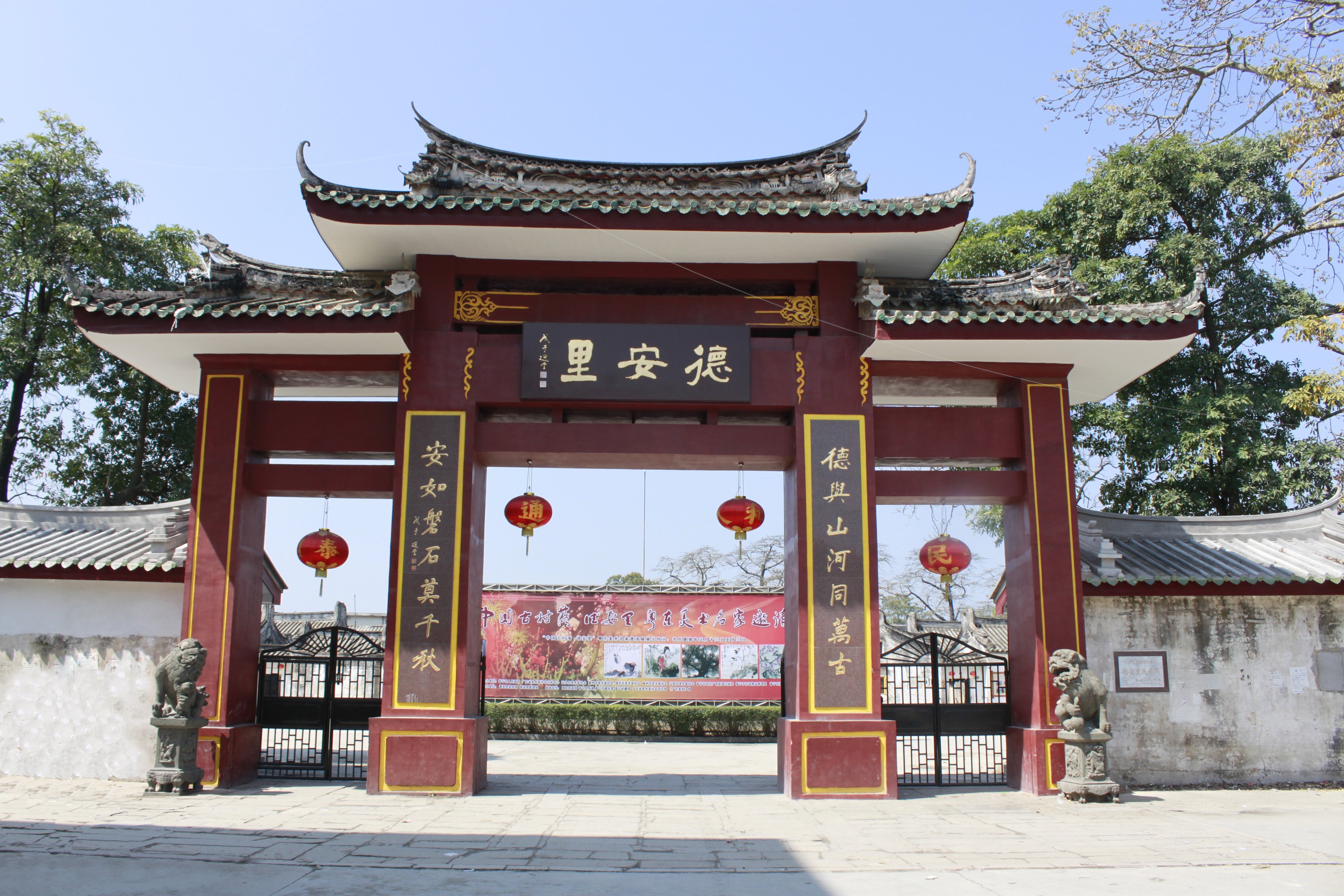 A photo taken at Deanli Mansion during the Spring Festival in 2010